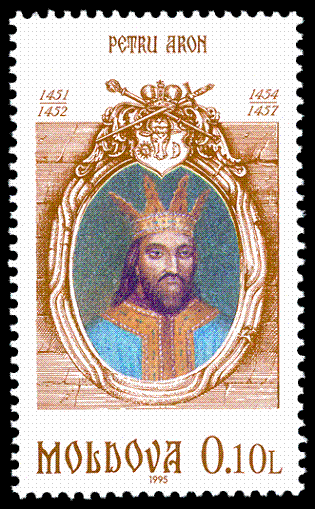 Petru Aron (1451-1452, 1454-1457). Son of Alexandru cel Bun. Orientated towards Turkey, paying a tribute to the sultan.